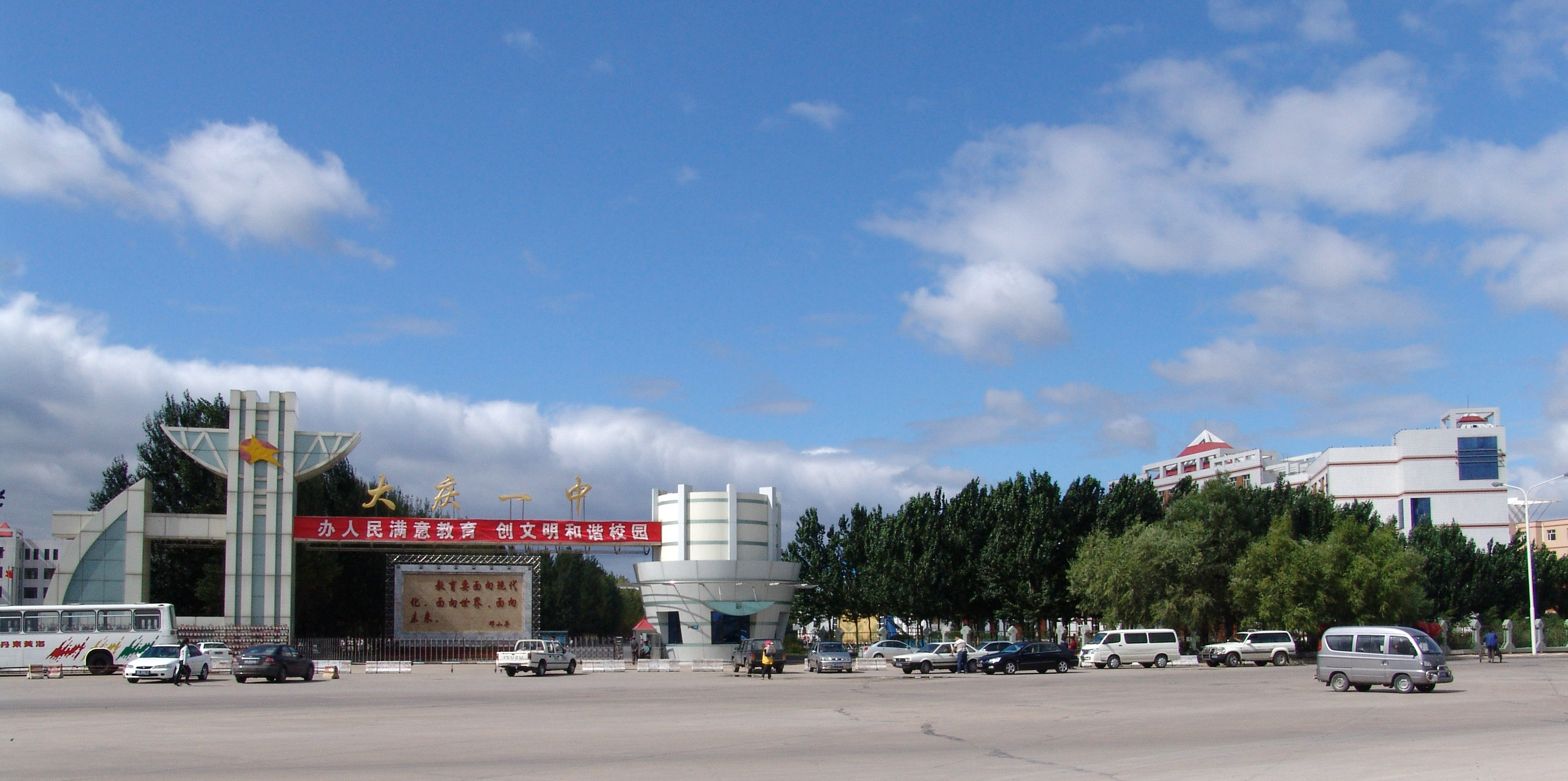 daqingyizhong at the gate